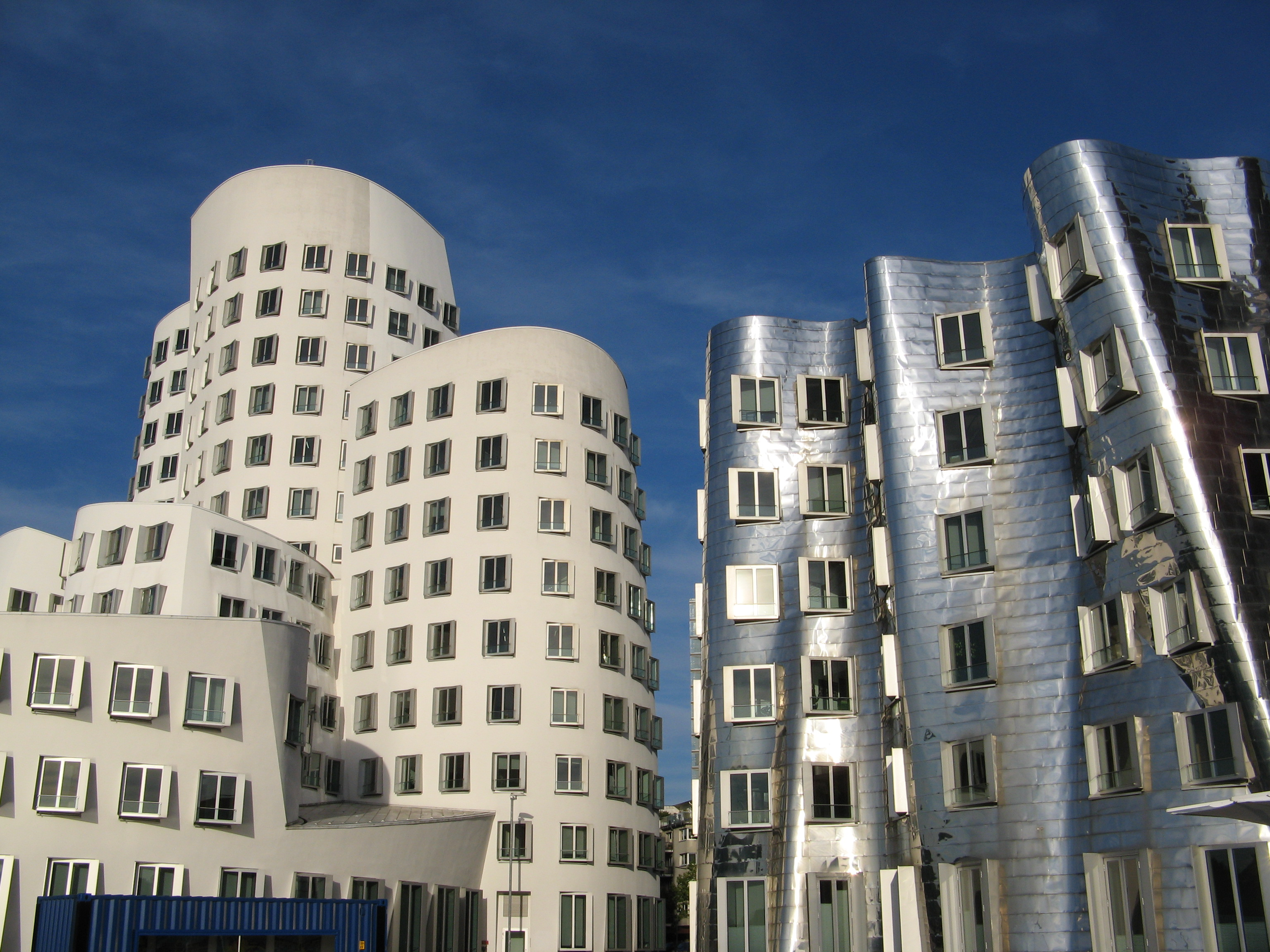 Architect is Frank Owen Gehry thanks everyone for the visits and comments!